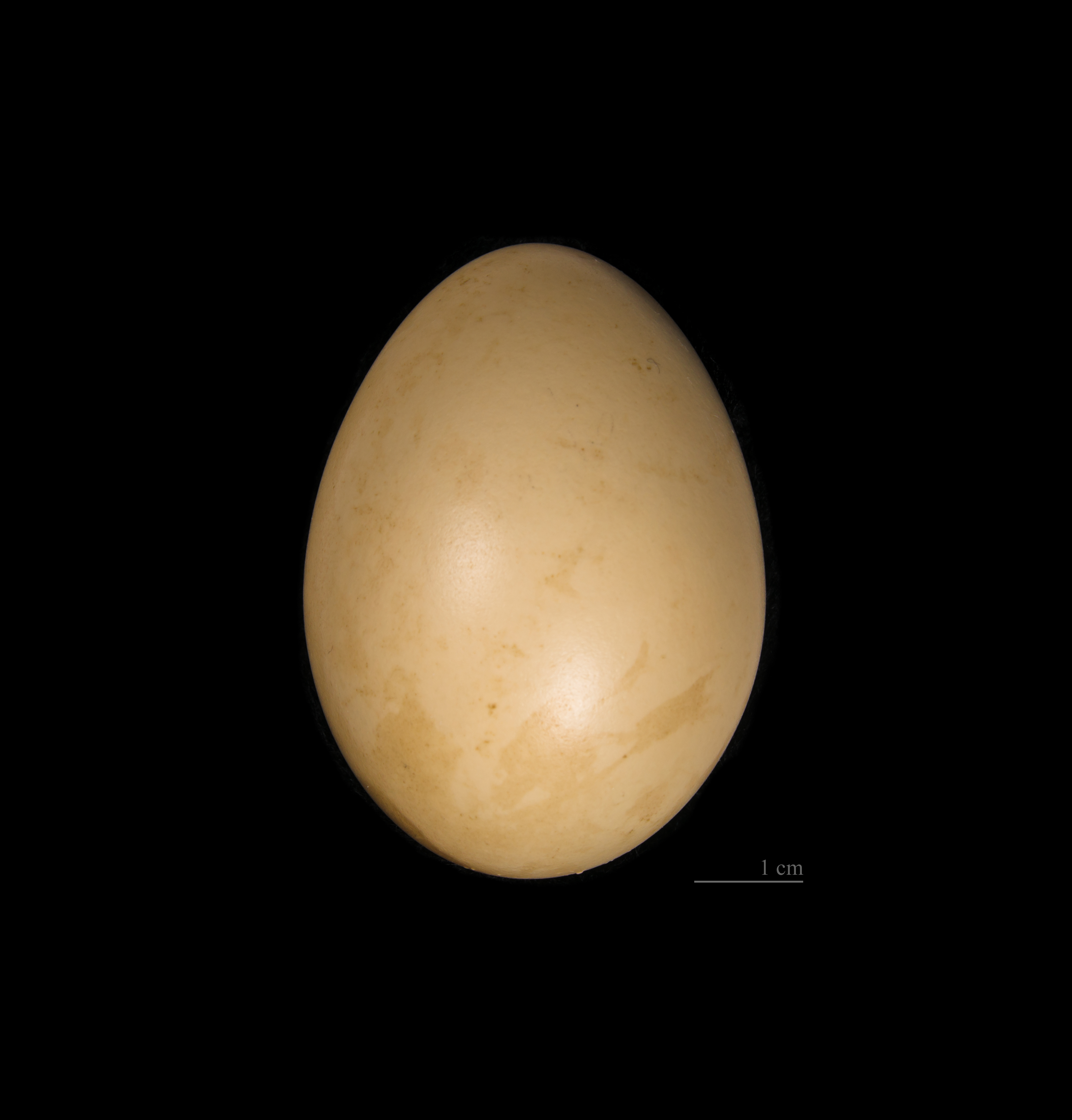 Egg of Mikado Pheasant. Collection of Jacques Perrin de Brichambaut.